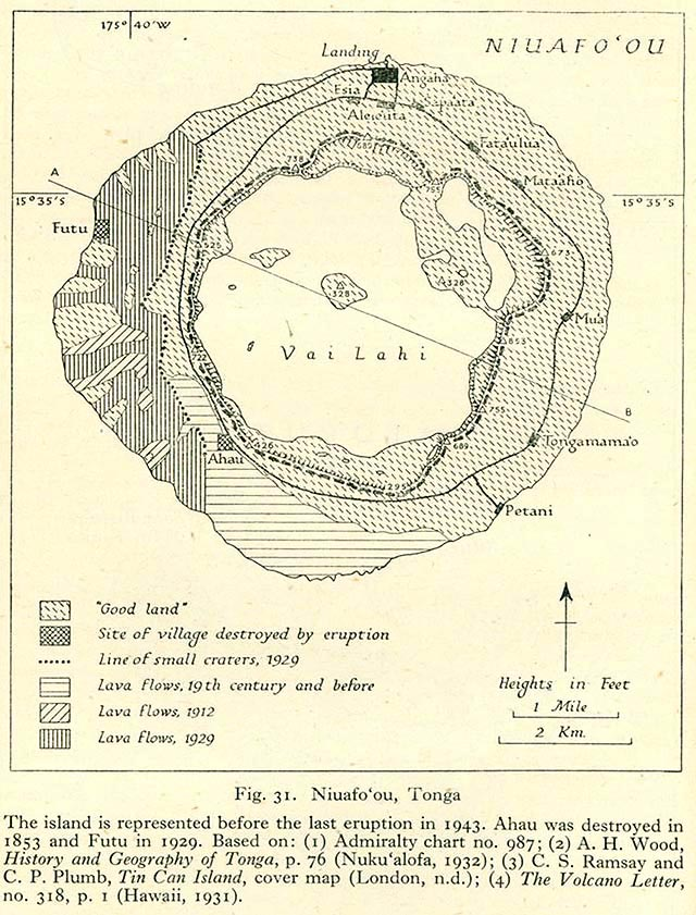 Map of Niuafoʻou before the 1943 eruption, showing lava flows and villages of the island. Text : "The island is represented before the last eruption in 1943. Ahau was destroyed in 1853 and Futu in 1929. Based on:(1) Admiralty chart no. 987 ; (2) A. H. Wood, History and Geography of Tonga, p76 (Nuku'alofa, 1932) ; (3) C.S. Ramsay and C.P. Plumb, Tin Can Island, cover map (London, n.d.) ; (4) The Volcano Letter, no. 318, p.1 (Hawaii, 1931)